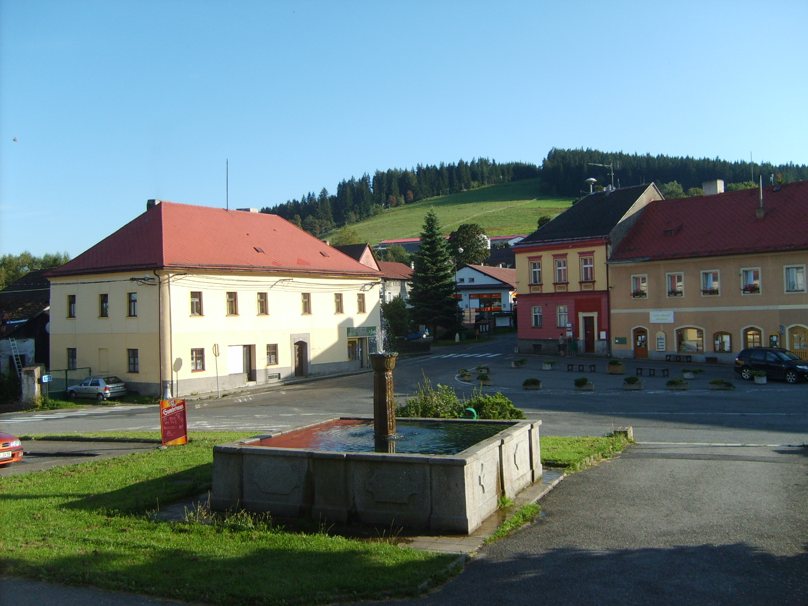 Town place in Hartmanice, Bohemian Forest. Bus stop, fountain built by local Jewish entrepreneur Isak Bloch.